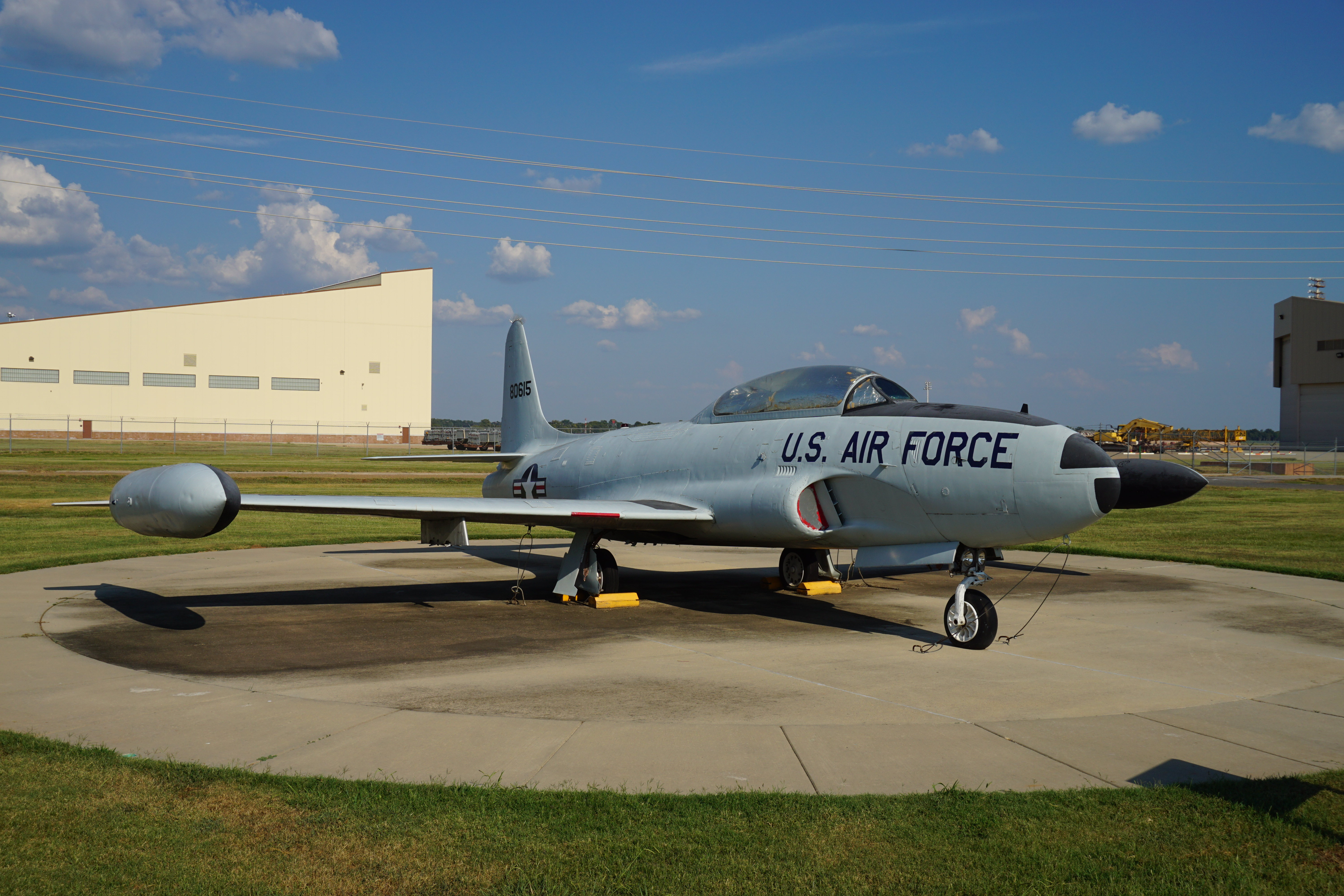 A Lockheed T-33A Shooting Star on display at the Barksdale Global Power Museum at Barksdale Air Force Base near Bossier City, Louisiana (United States).